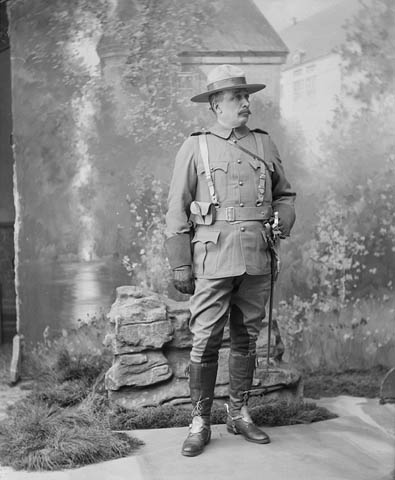 "Sam Steele" - Sir Samuel Benfield Steele, in his uniform as commanding officer, Lord Strathcona's Horse.